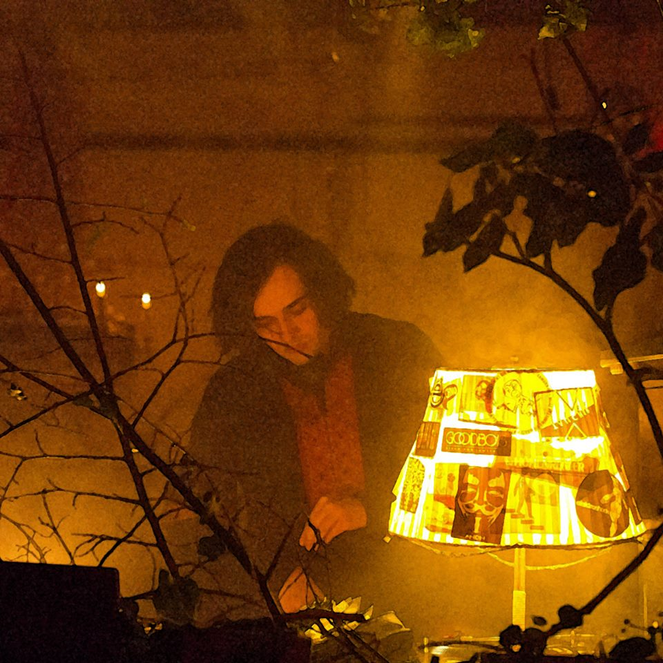 THUR DEEPHREY LIVE @ PAPPEN TRANSPORT THEATER